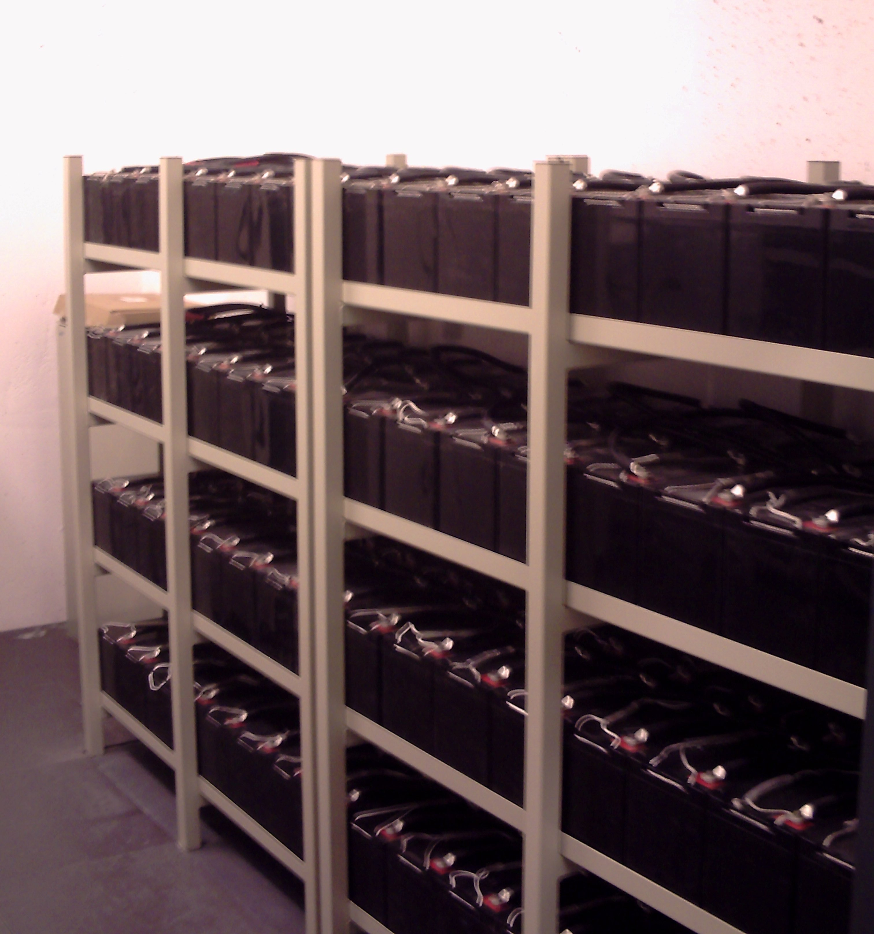 A cluster of rechargeable batteries serving as uninterruptible power supply for the building of JATIK, University of Szeged. The photo have been taken on a "Night in The Library, 2009" tour.